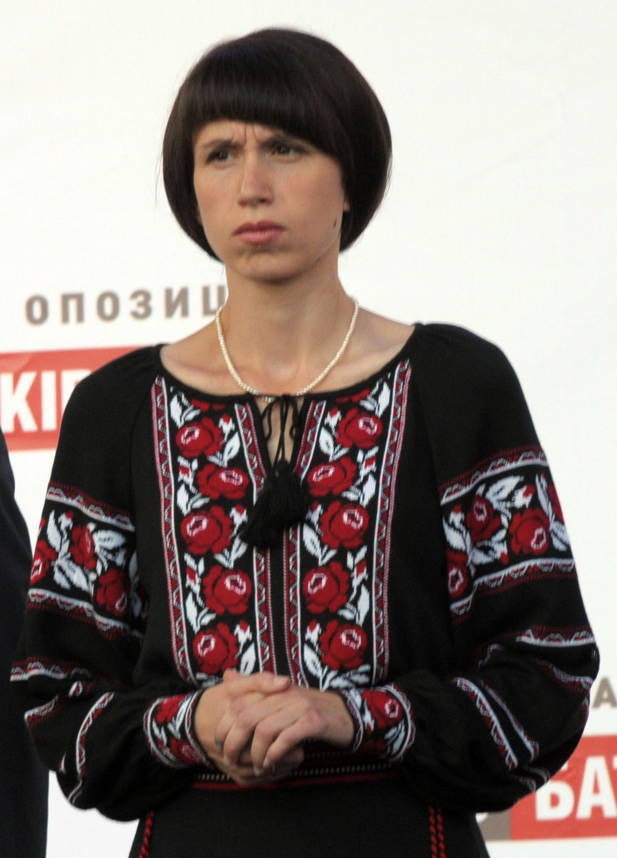 Tetiana Chornovol, Ukrainian journalist and activist